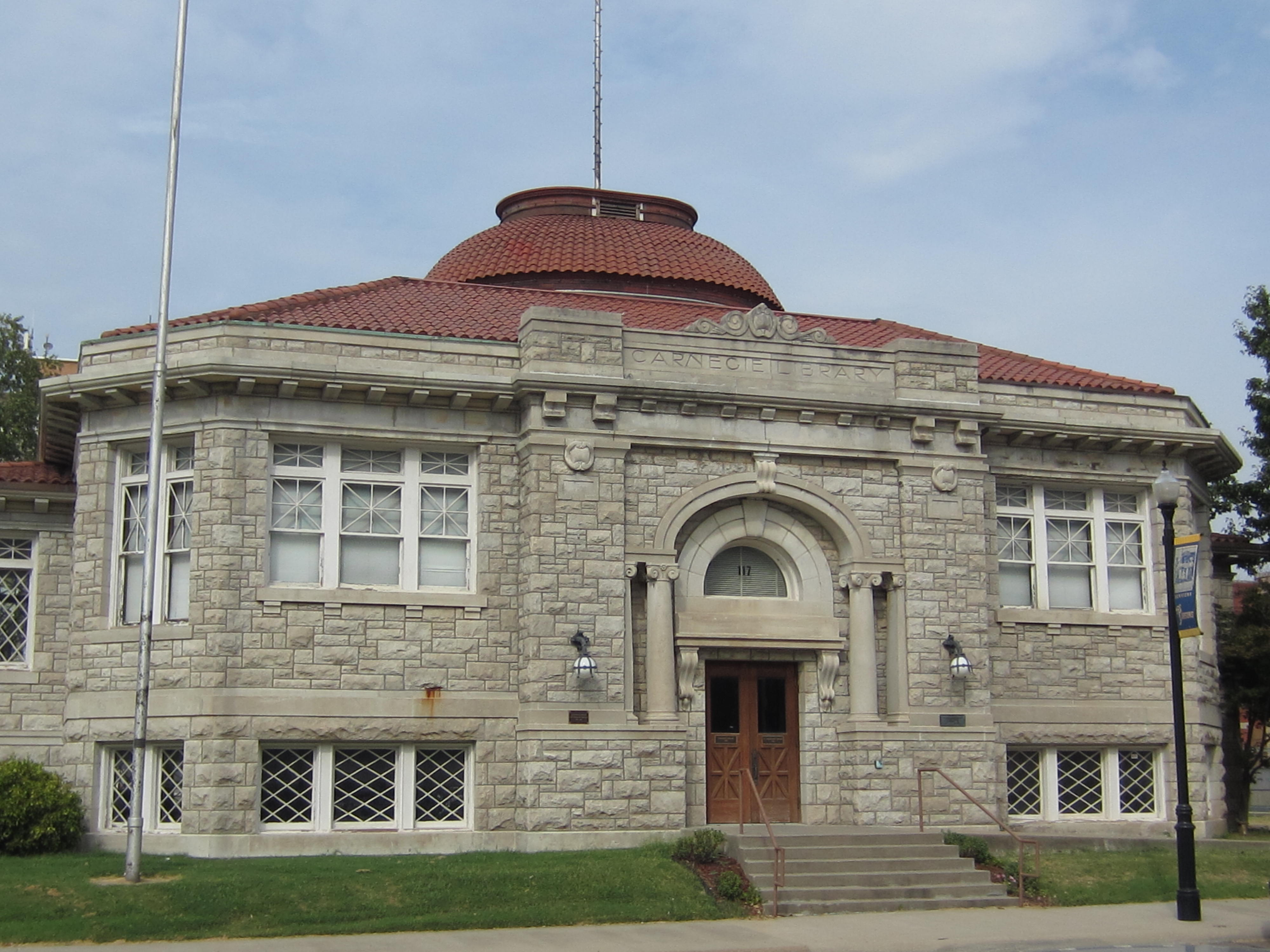 Parsons, KS former public library. (2013)